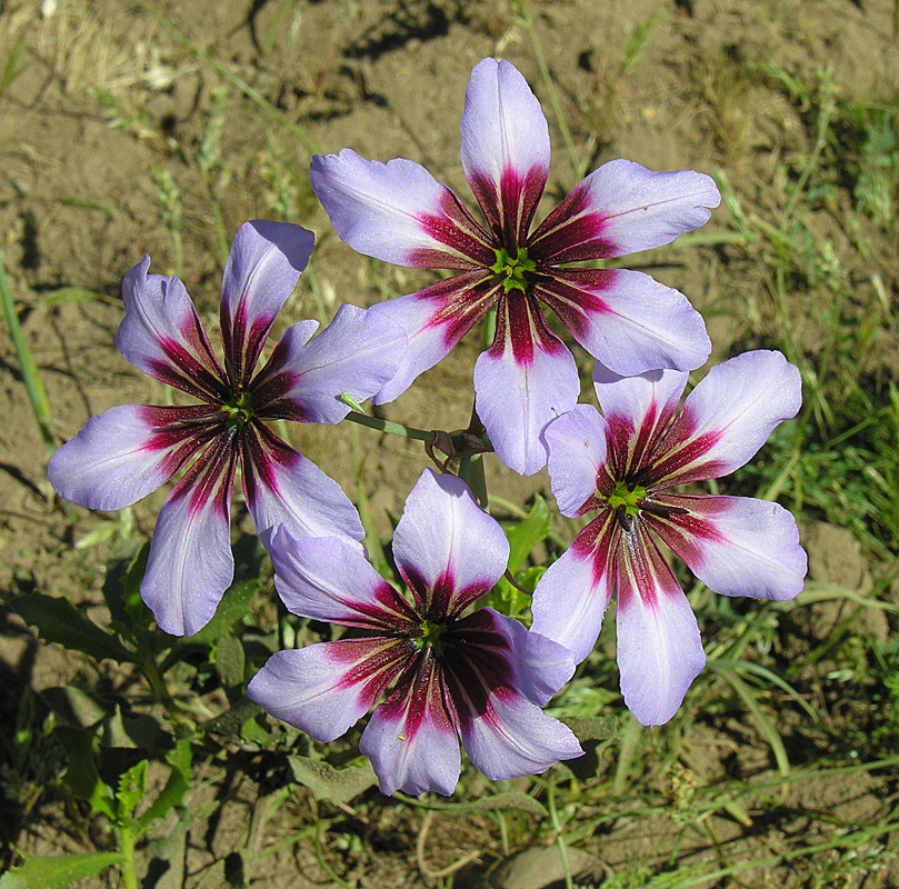 Endemic to central Chile, where it is called Cebollin Purpurea. In context at